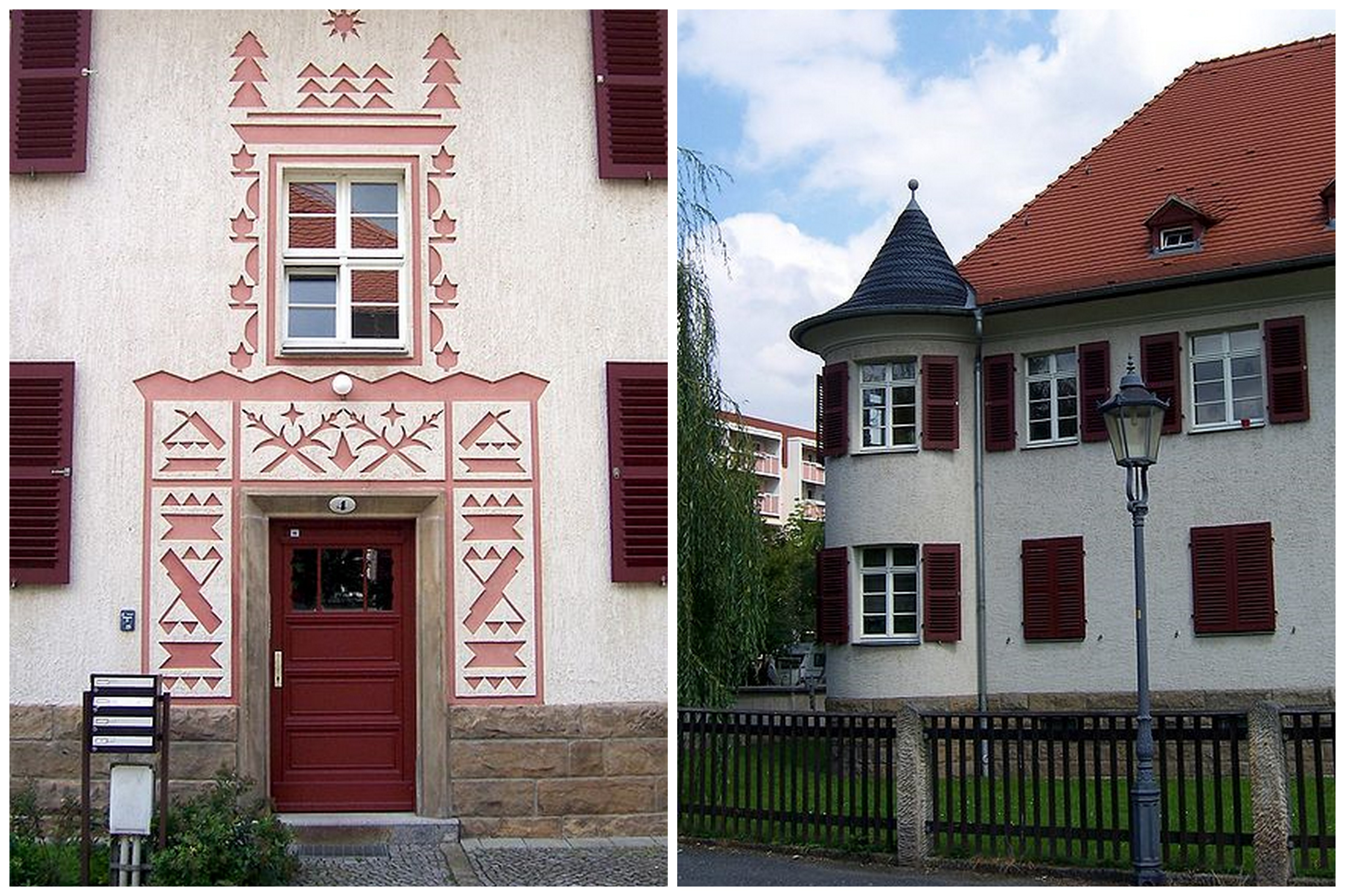 doors 'n windows in Germany